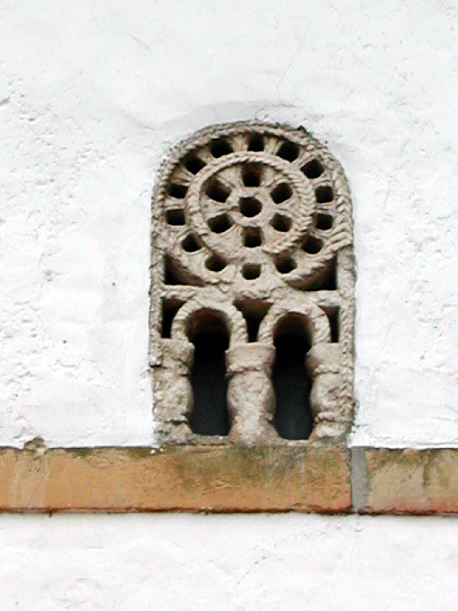 Pre-romanesque window in the church of Saint Michael of Villardeveyo (Llanera-Asturias-Spain)